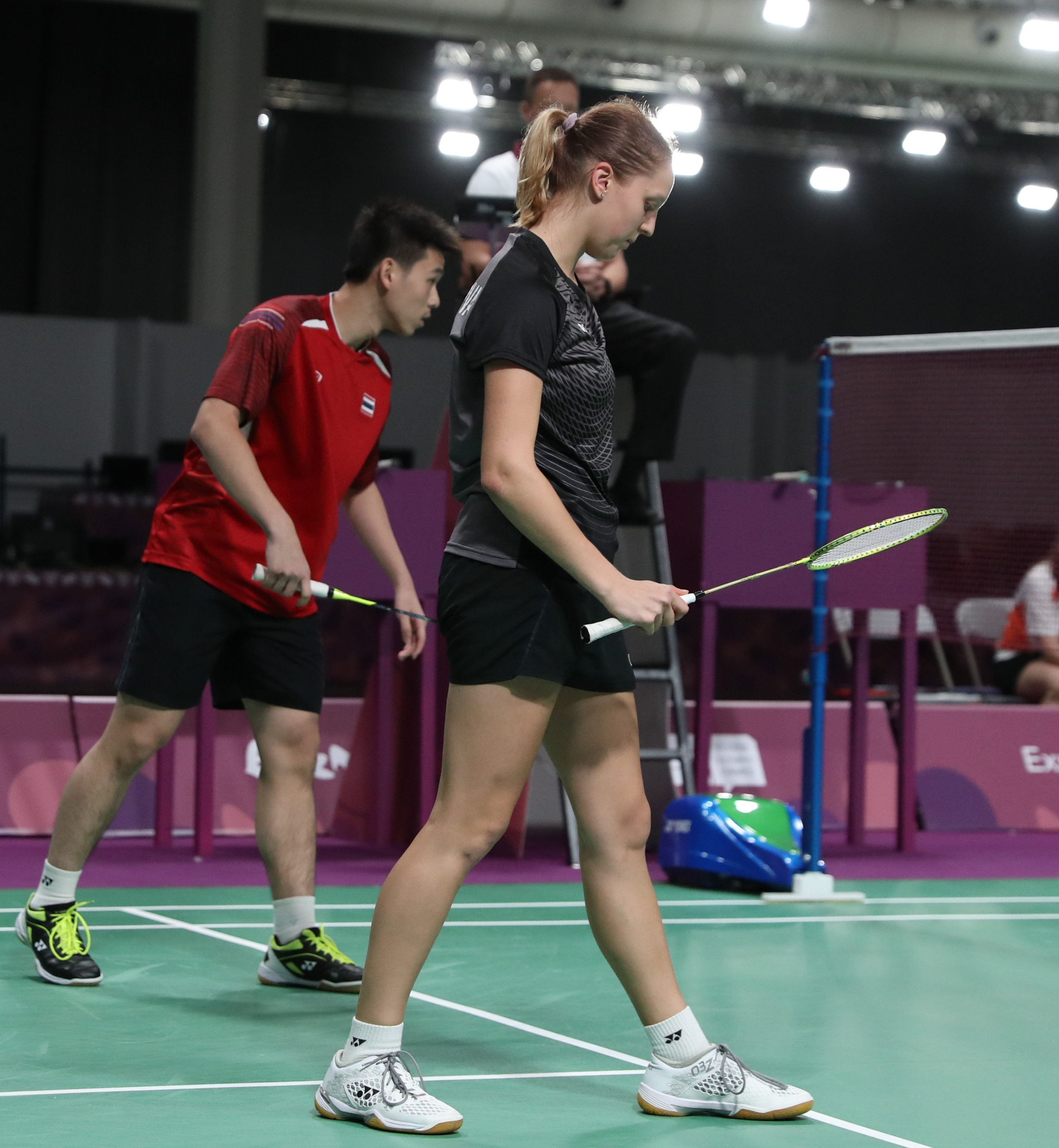 Final at the Badminton Mixed International Team competition